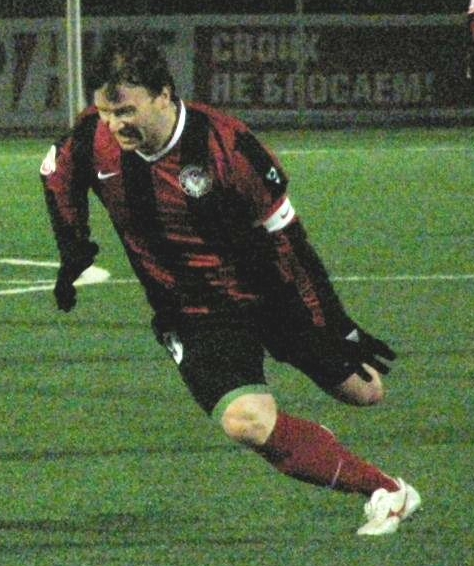 Konstantin Paramonov in his last match for FC Amkar